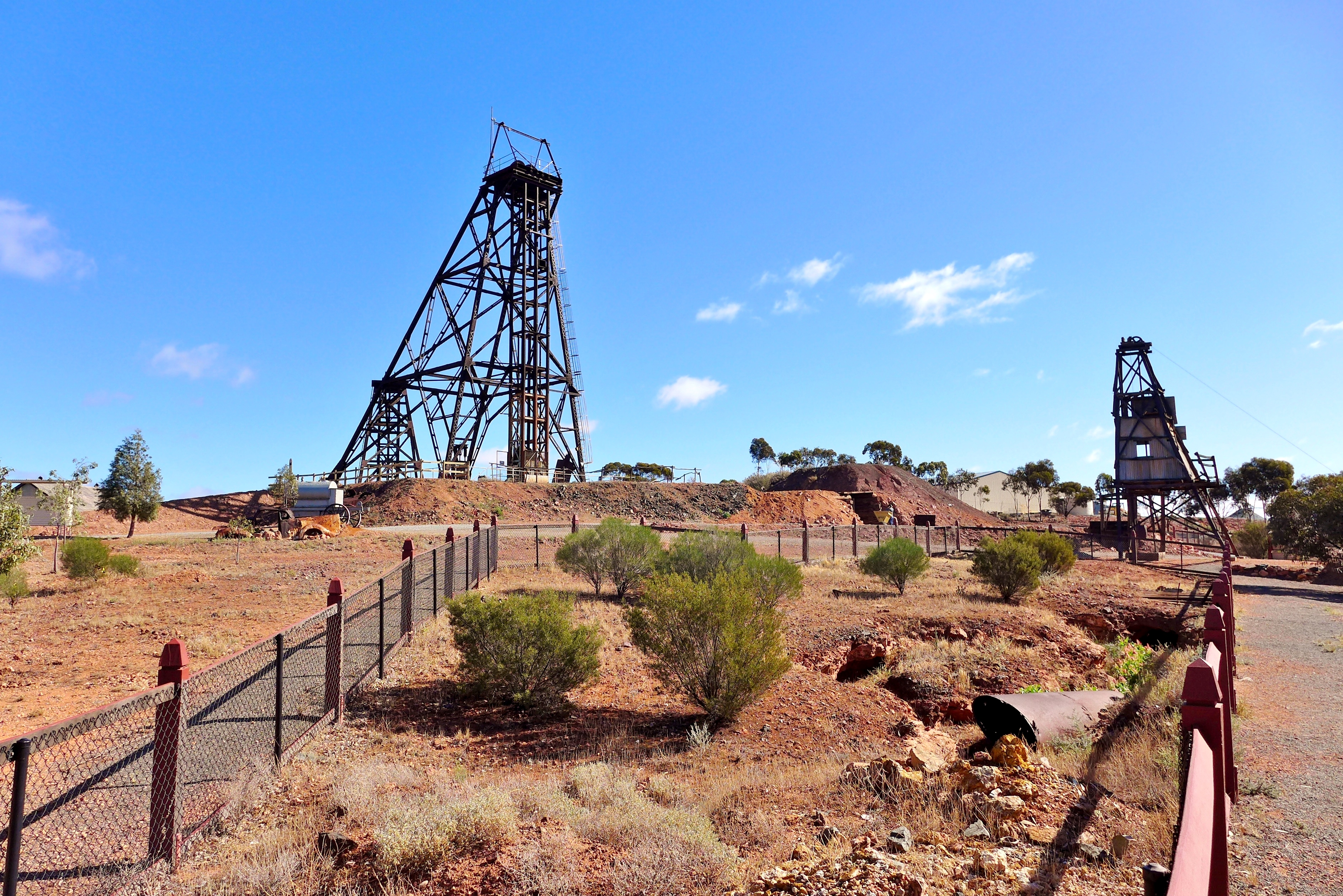 View of a pair of head frames at the Hannans North Tourist Mine, in Kalgoorlie, Western Australia.